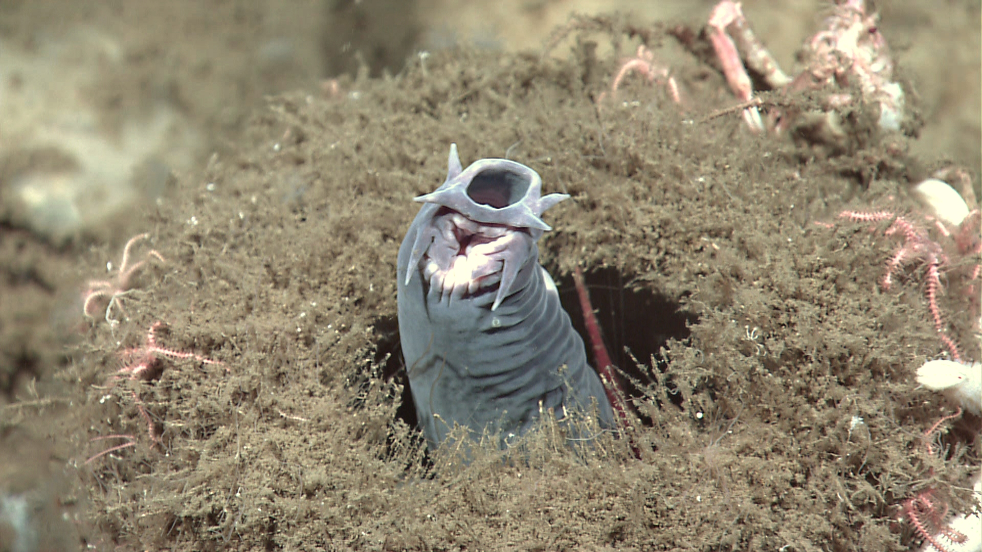 Unidentified Myxine